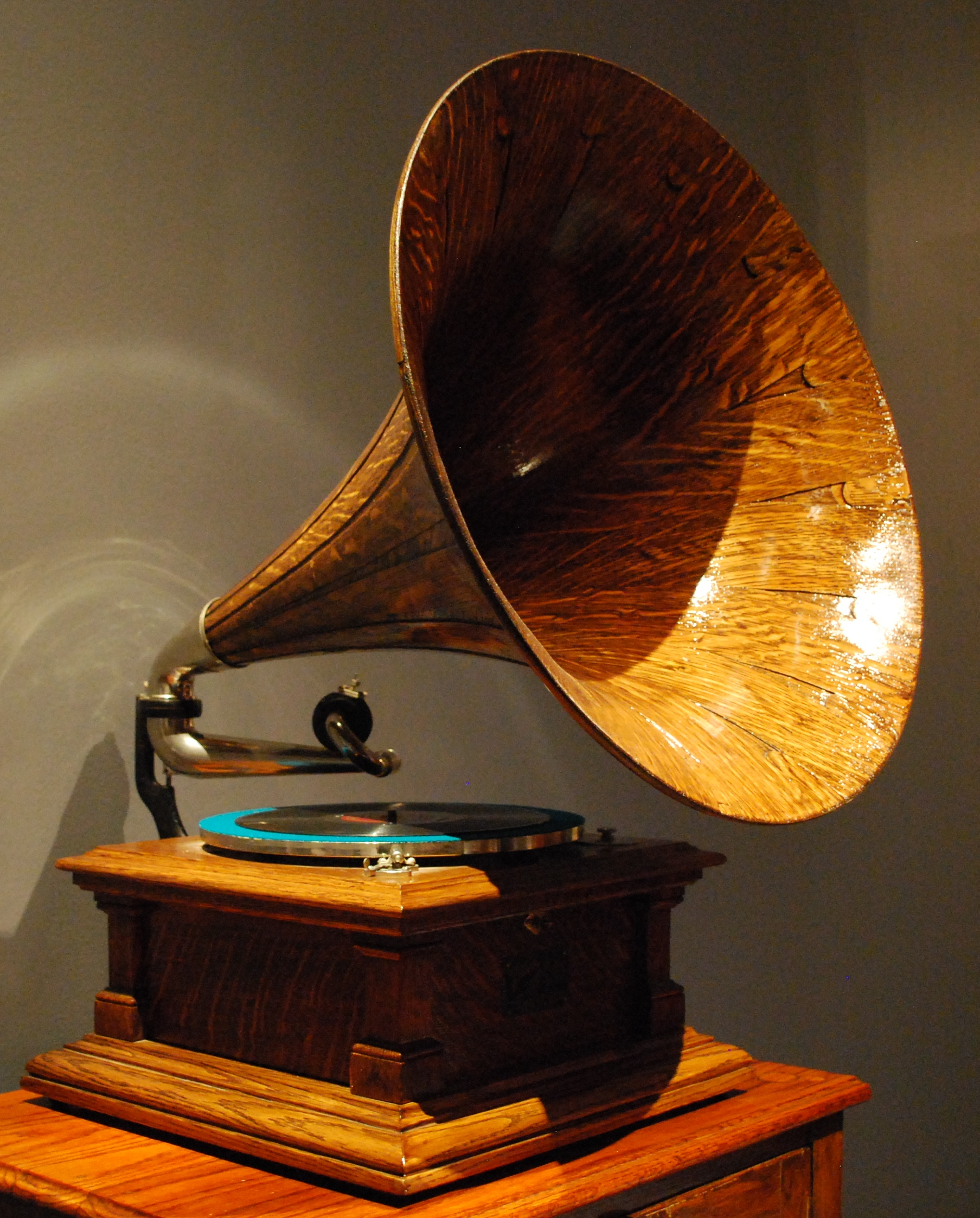 Victor V 1910 phonograph from the Salvador Velez collection